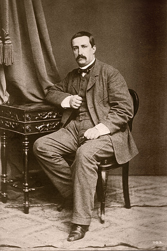 Russian Composer and Chemist of Georgian-Russian parentage Alexander Borodin